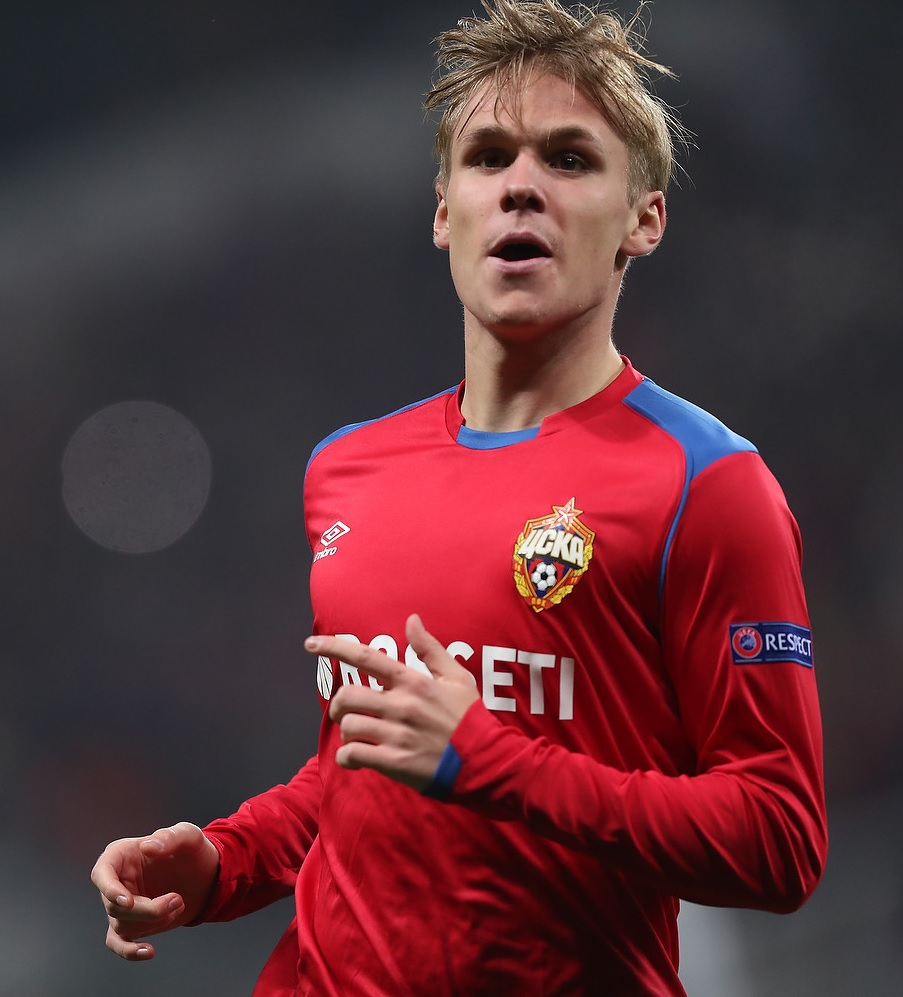 Arnór Sigurðsson with PFC CSKA Moscow in a game against A.S. Roma.